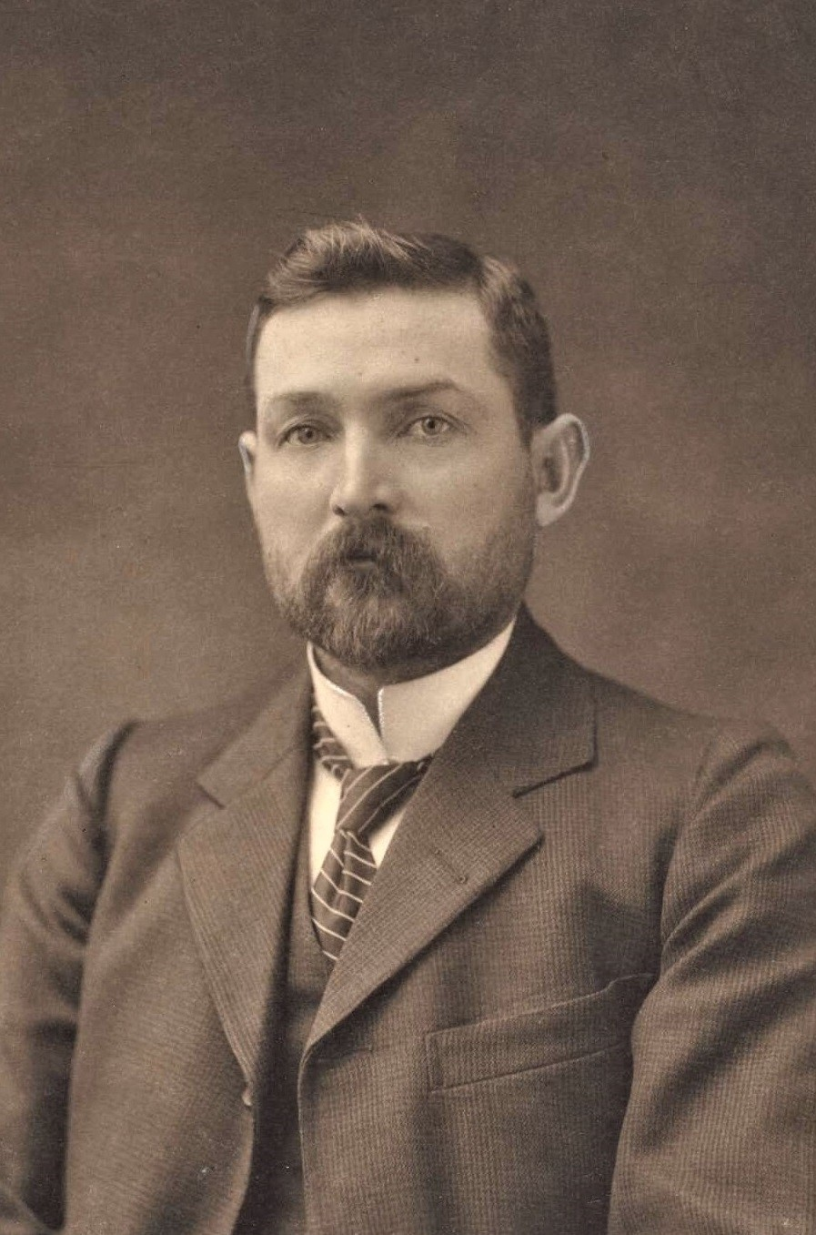 Chris Watson